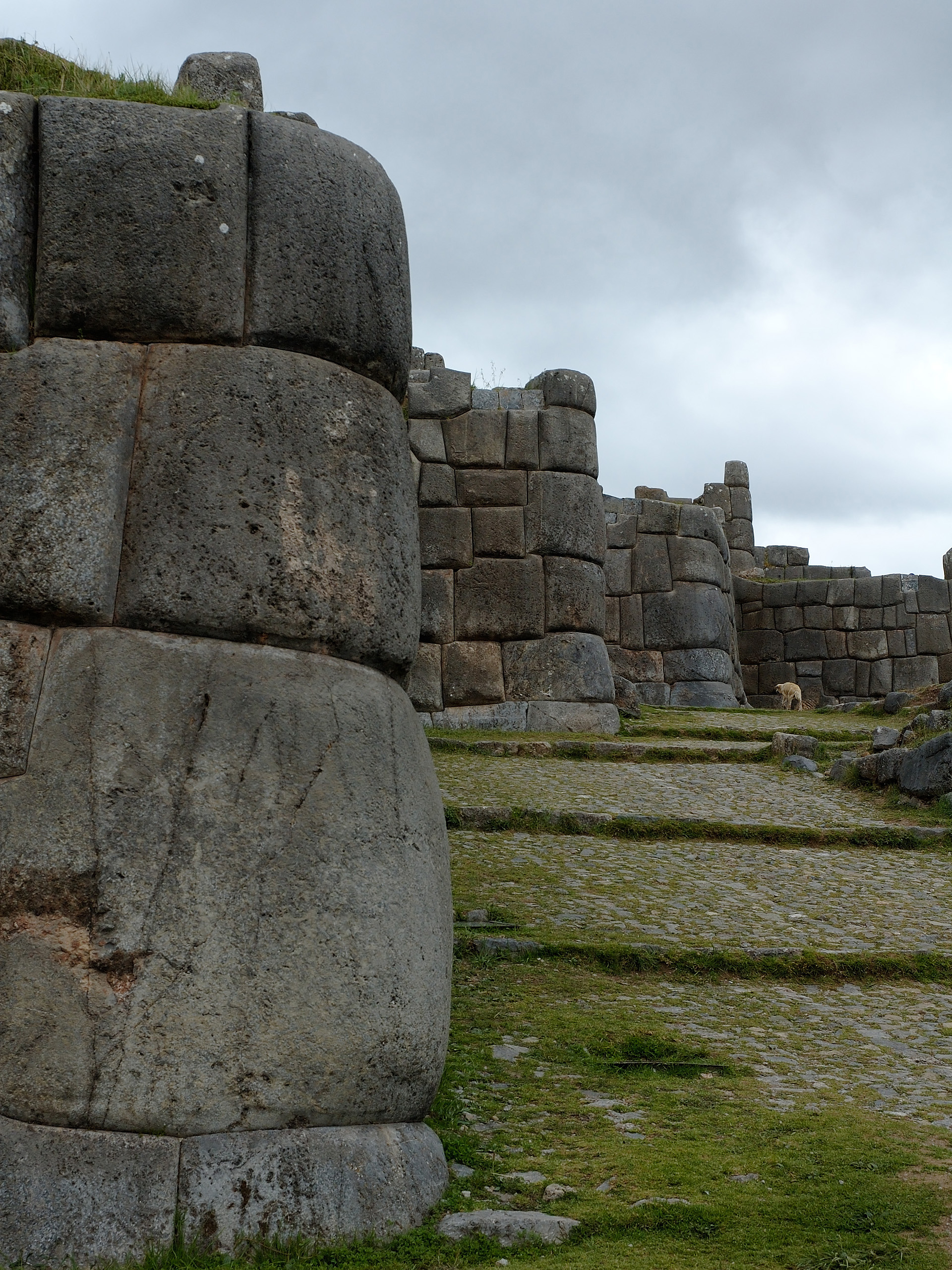 Pictures of the exterior wall of the Inca fortress of Sacsayhuaman, showing how the huge pieces of rock fit perfectly.